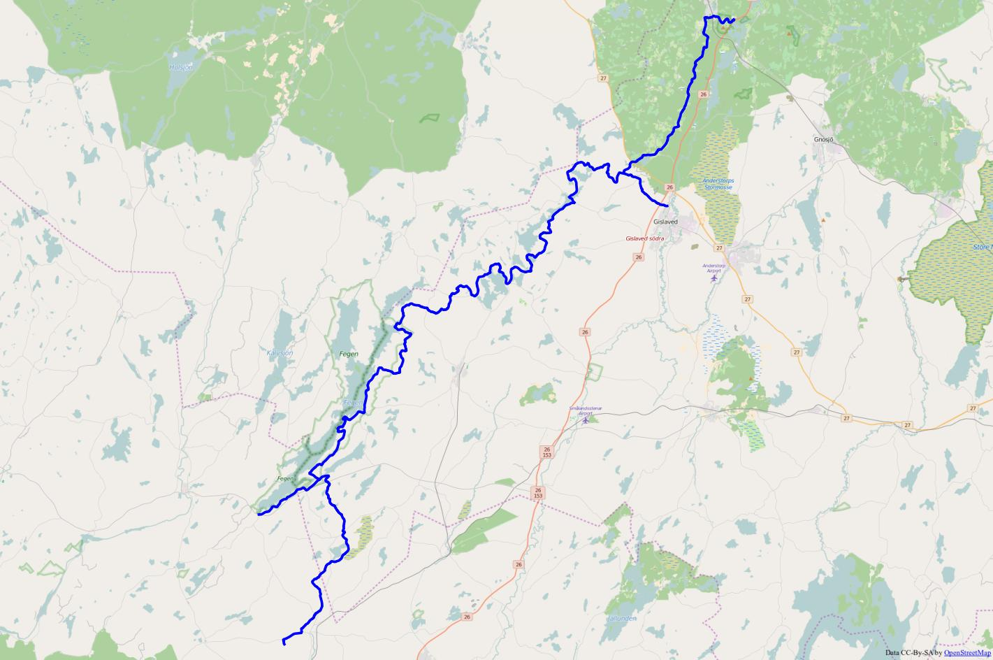 The Gislavedsleden long distance hiking trail in the province of Småland, Sweden.